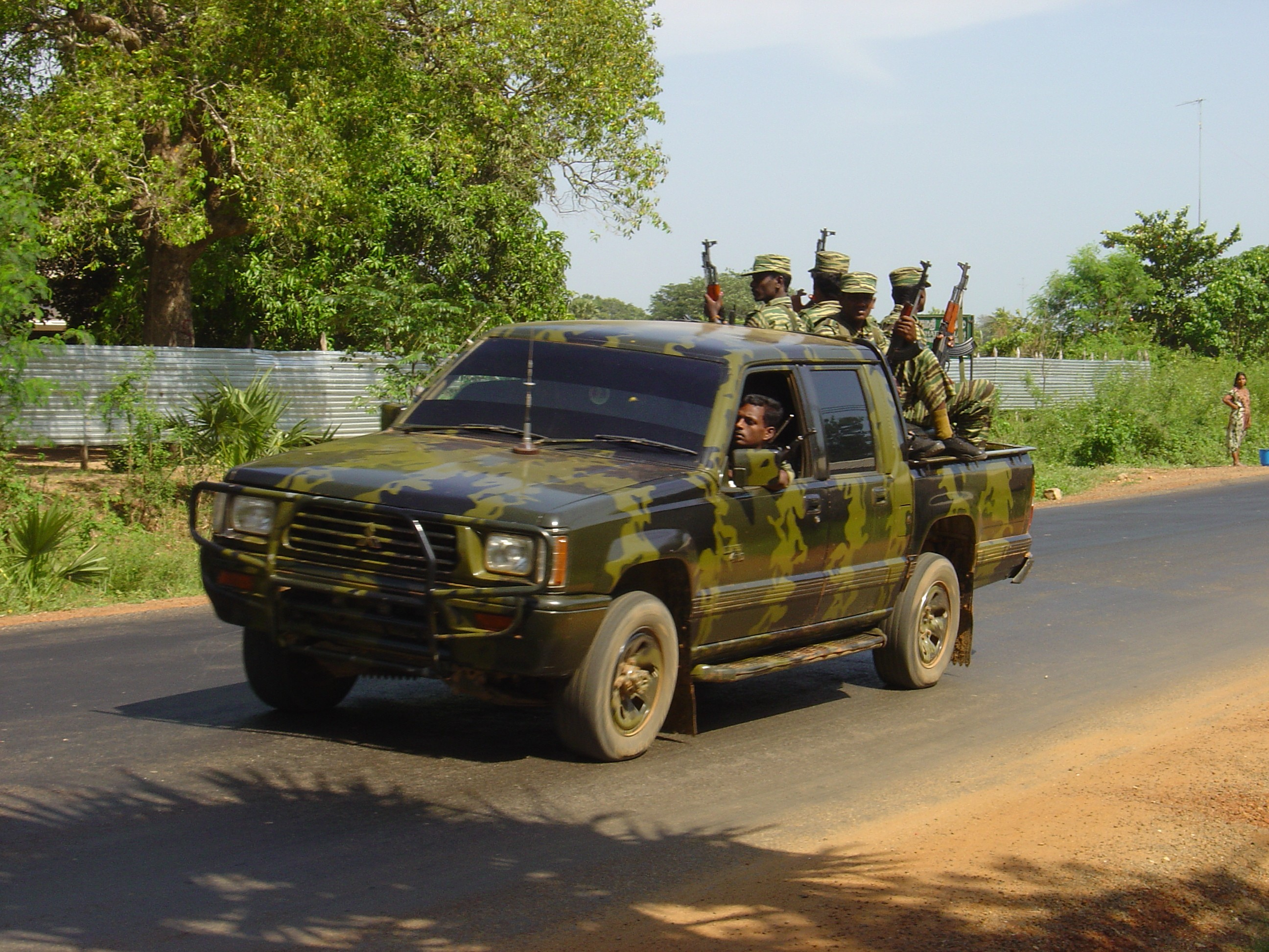 A LTTE car with soldiers, in Killinochi, april 2004. Picture taken by myself.